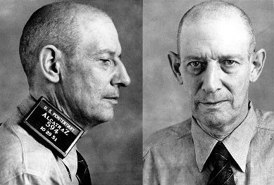 Robert Stroud (Birdman of Alcatraz). Mug shot 29 October 1951.